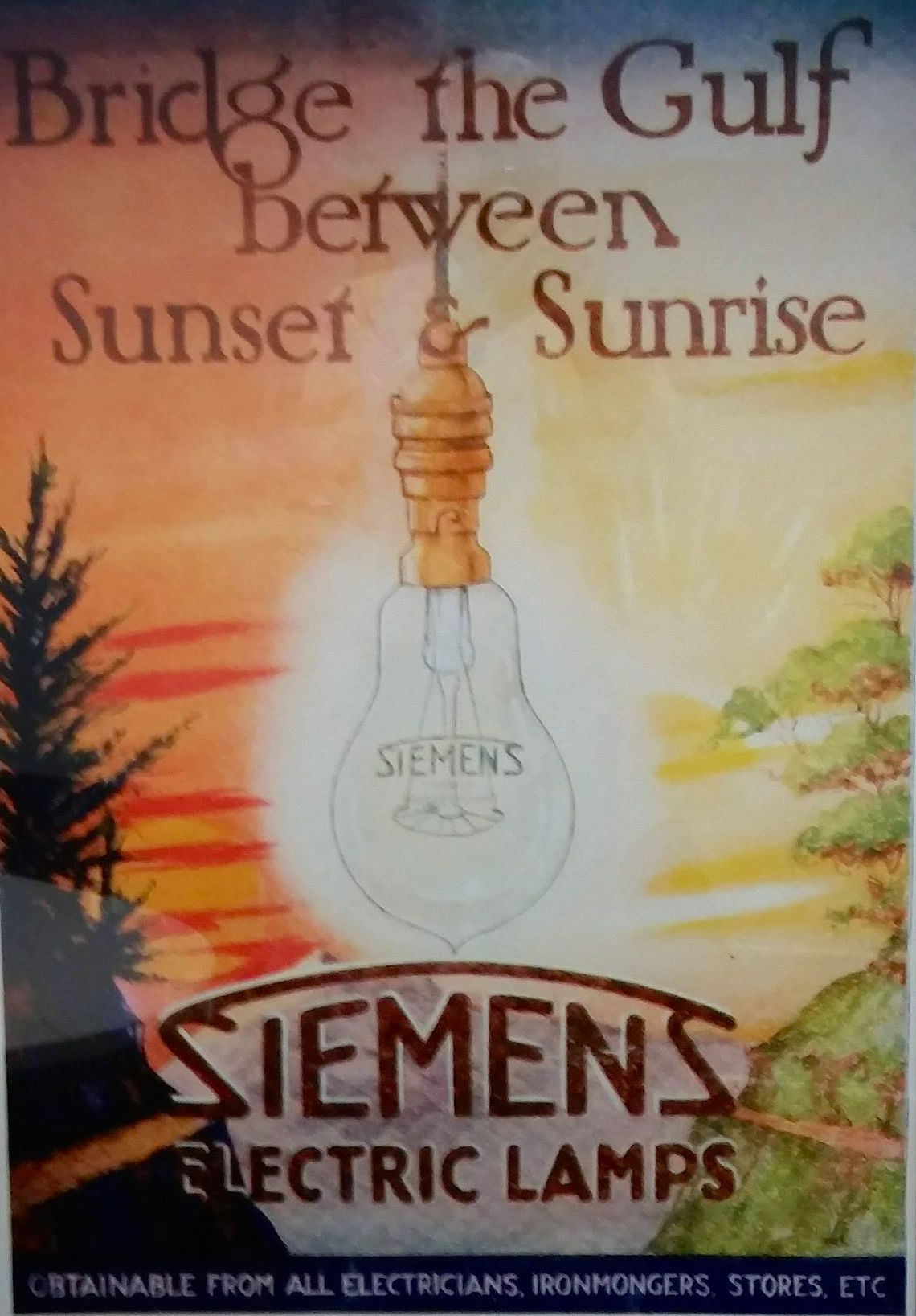 Siemens Light Poster from the 1920's